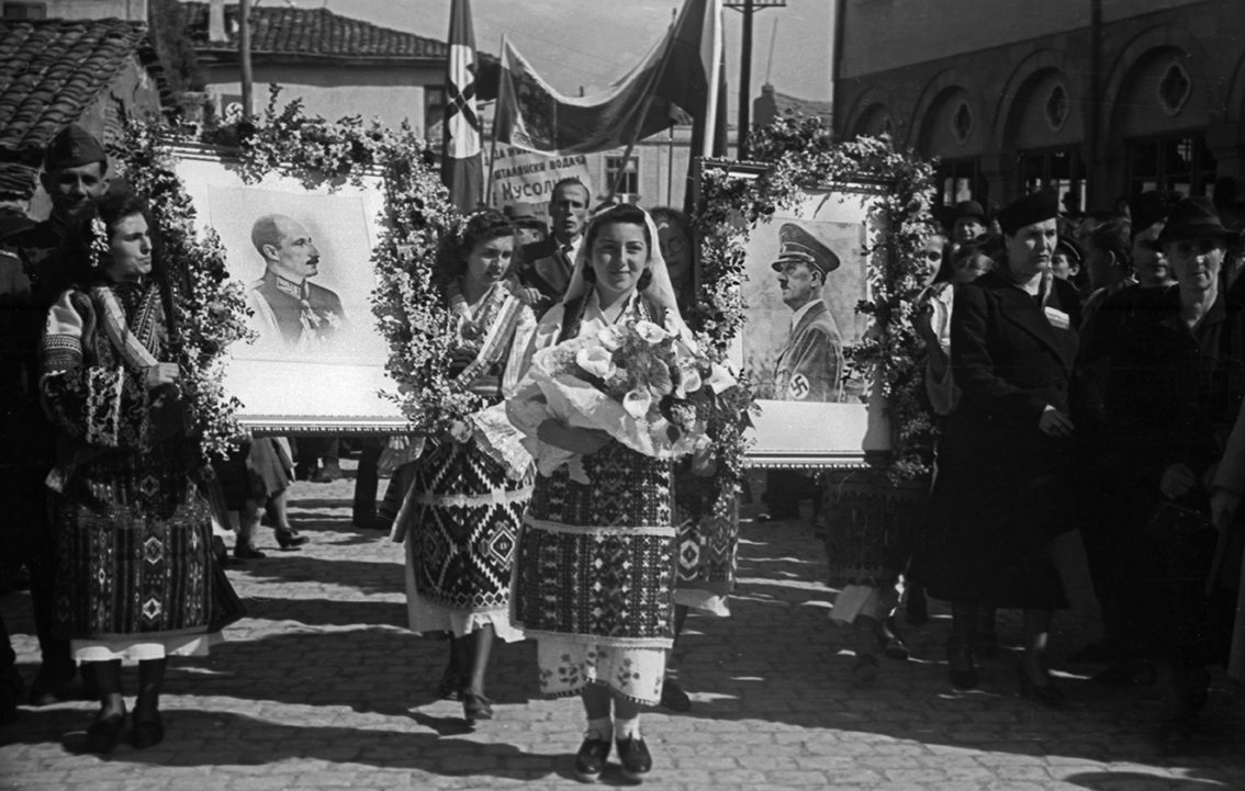 Girls carry portraits of Bulgarian Tsar Boris III and the German Chancellor Adolf Hitler among the jubilant crowd in Skopje, April 20, 1941.